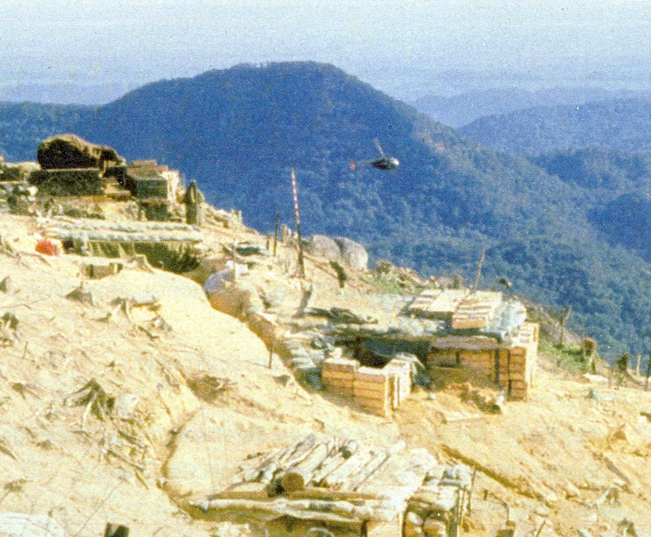 A view of Fire Support Base Ripcord, situated atop a high mountain overlooking the A Shau Valley. It was designed to provide support for a new allied thrust, but was besieged for nearly a month in July 1970.